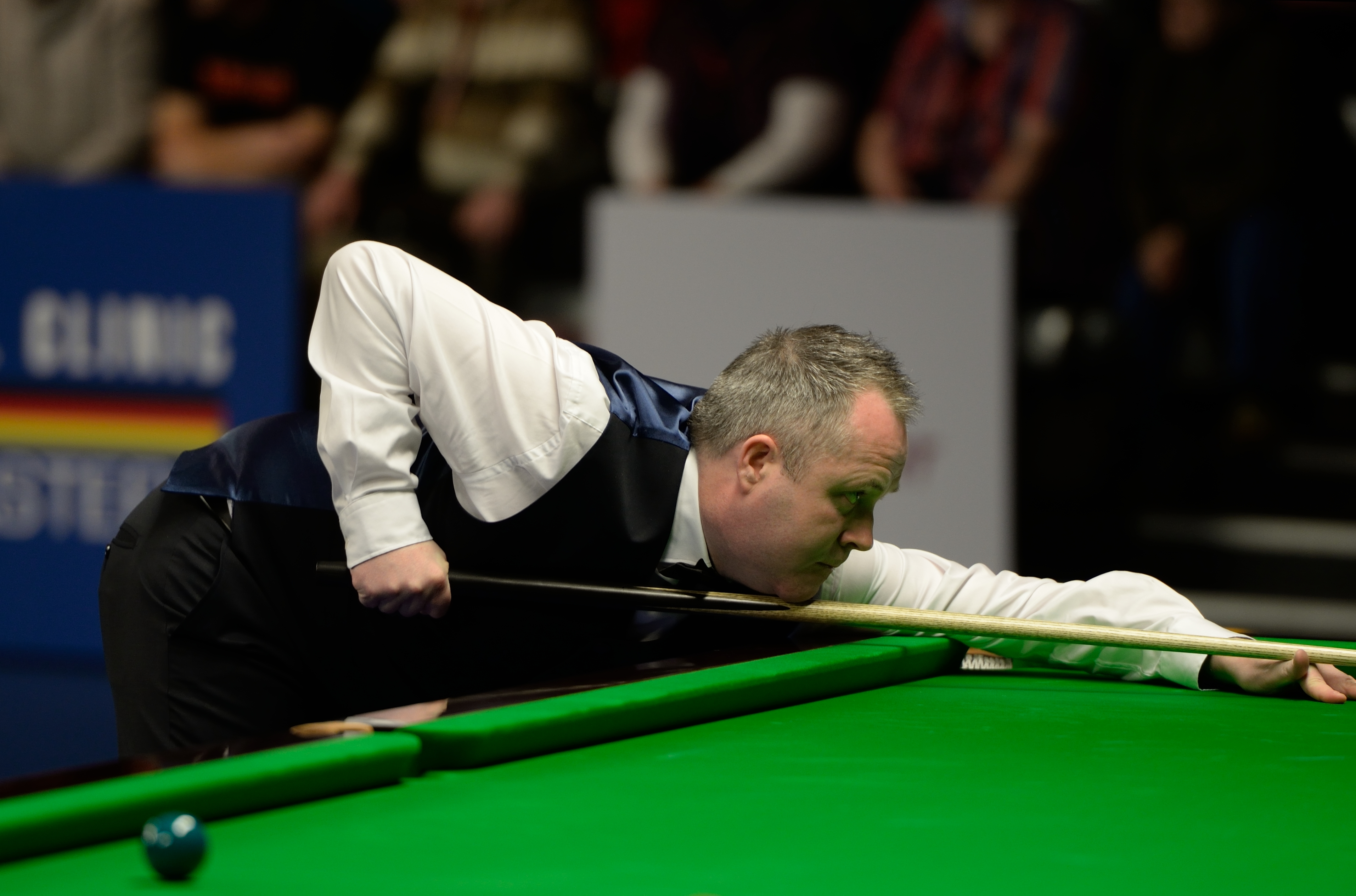 Picture taken in Berlin during the Snooker German Masters in 2015. John Higgins.